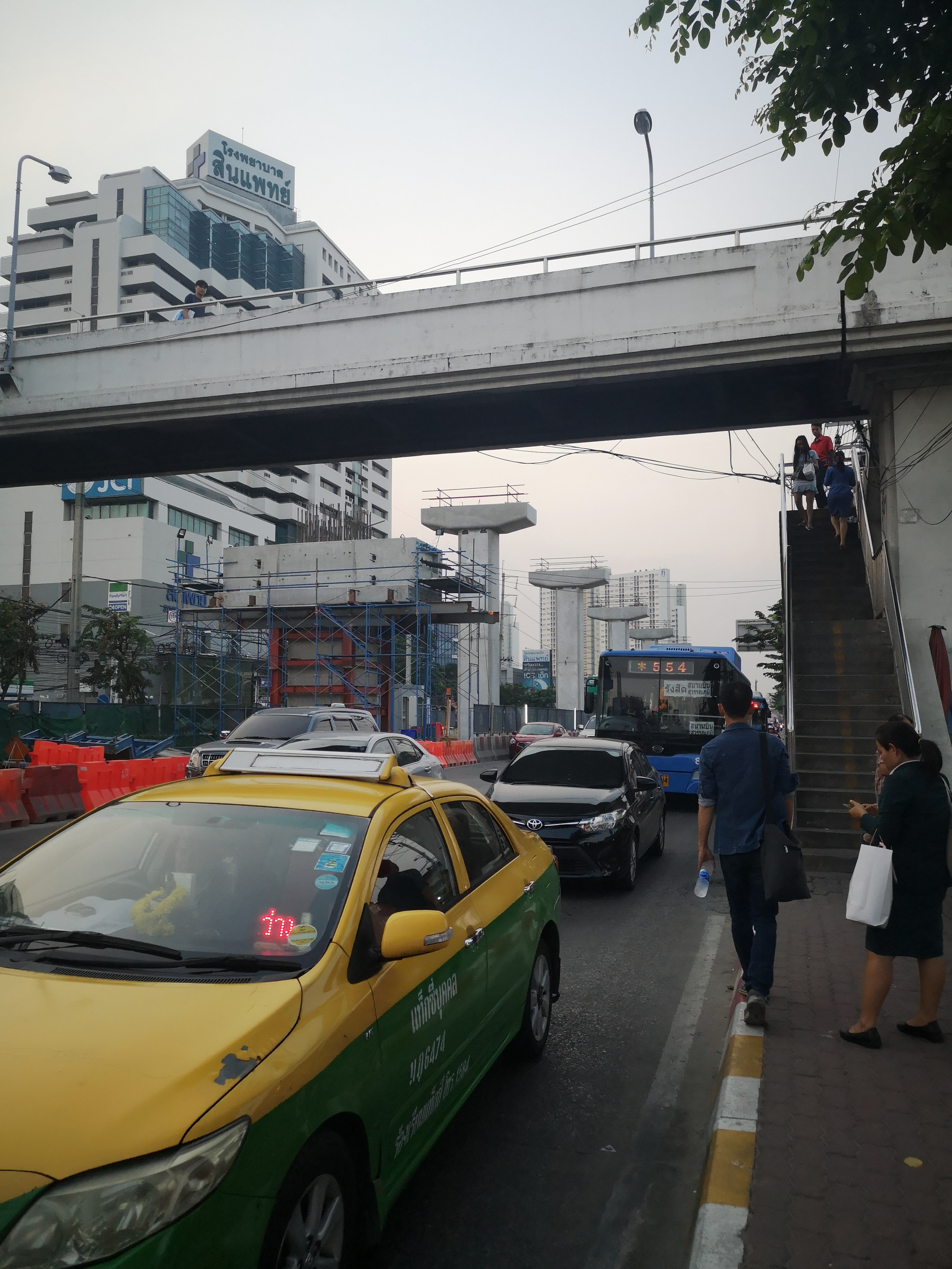 Thanon Rarm Intra